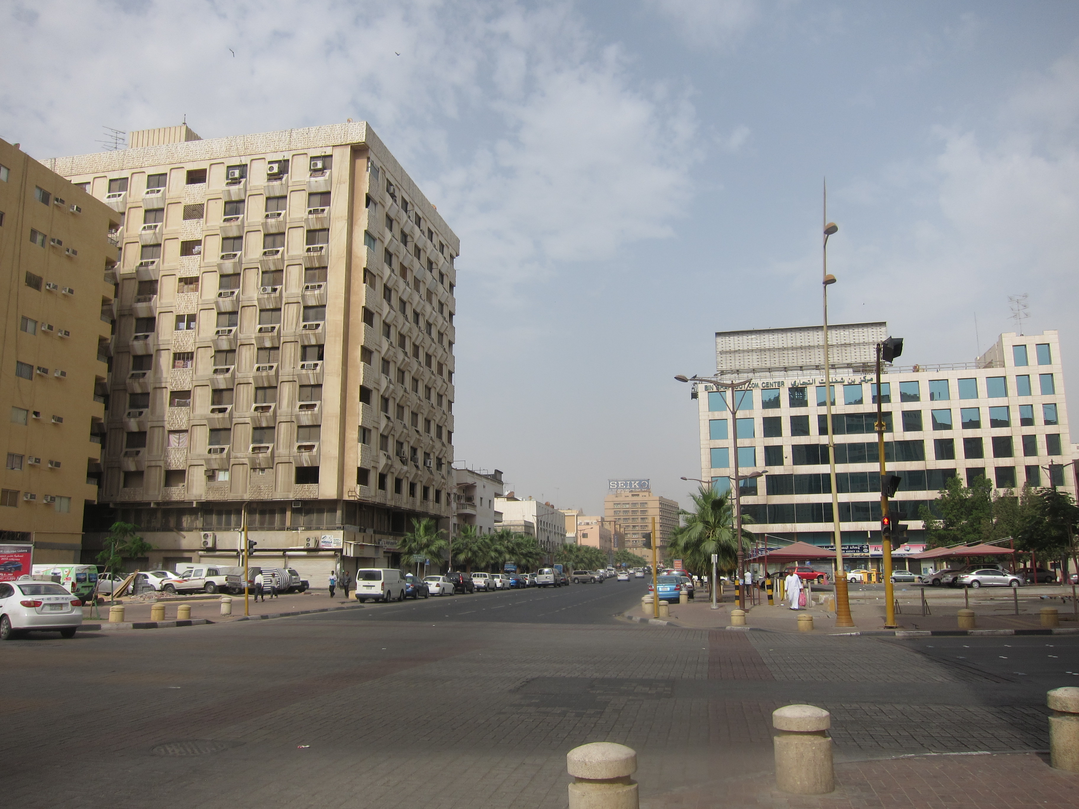 Dammam City Center, Dammam, Saudi Arabia ദമാം നഗരകേന്ദ്രം, ദമാം സൗദി അറേബ്യ ഷെയർ ടാക്സികളുടെ യാത്ര ആരംഭിക്കുന്നതും അവസാനിക്കുന്നതും ദമാമിന്റെ കേന്ദ്രബിന്ദുവായ സിക്കോ ബിൽഡിംഗ് പരിസരത്ത്... അതിനാൽ തന്നെ ദമാം പരിസരത്ത് ജോലിക്ക് വരുന്നവരെ കണ്ടുമുട്ടാൻ എല്ലാവരോടും പറയുന്ന സ്ഥലമാണ് സീക്കോ ബിൽഡിംഗ്...